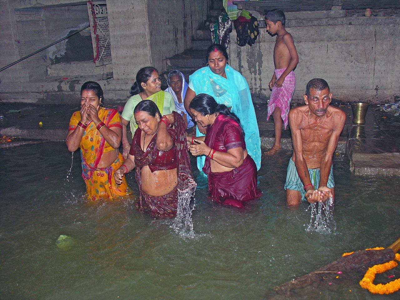 Hindus believe that bathing in the river Ganga causes the remission of sins and facilitates the attainment of salvation or nirvana. People travel from distant places to immerse the ashes of their kin in the waters of the Ganga at Varanasi.